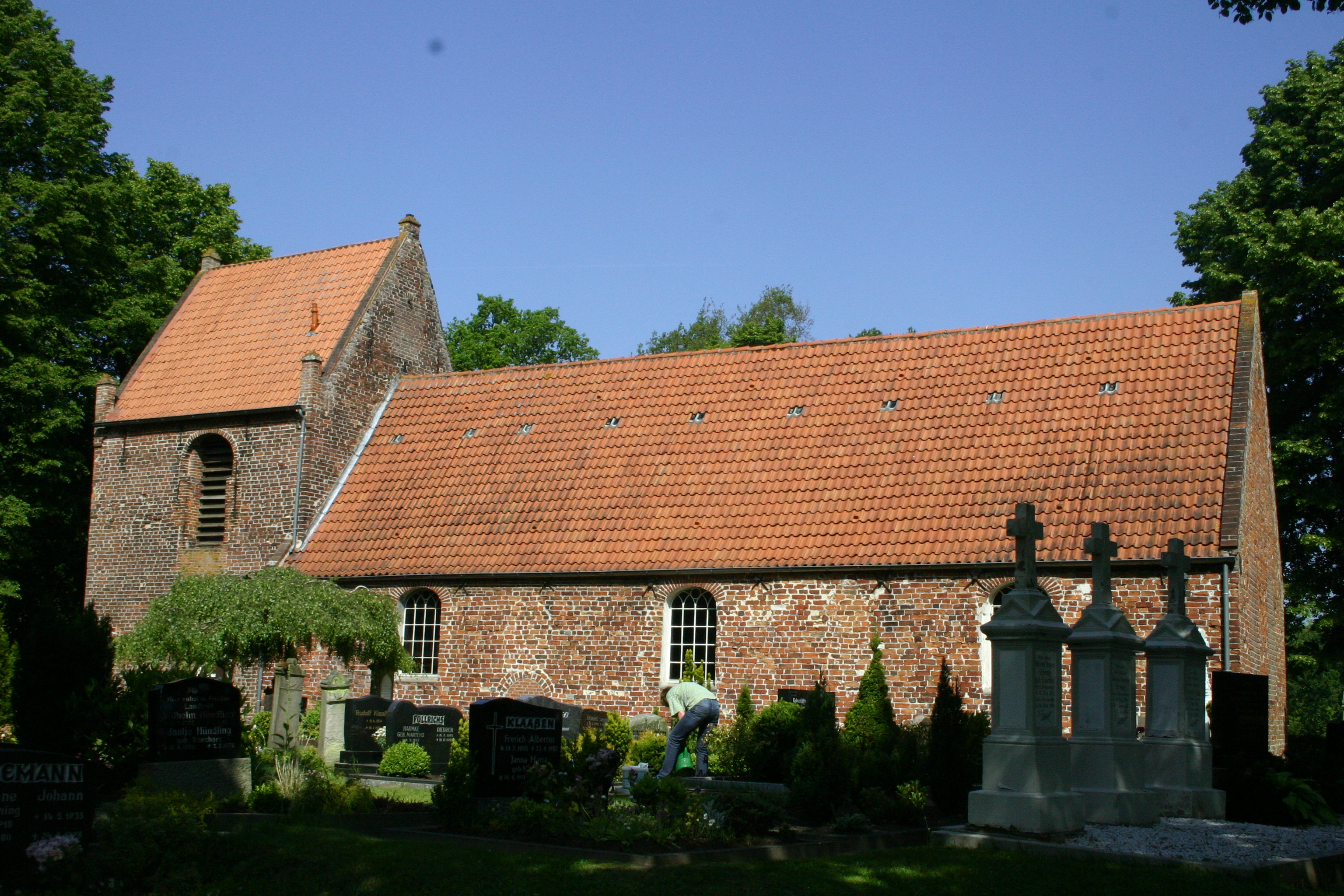 Historic church in Großwolde, district of Leer, East Frisia, Germany